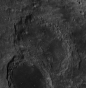 Oblique view of Maxwell, on the far side of the moon. North is at top. Lomonosov is at lower left.